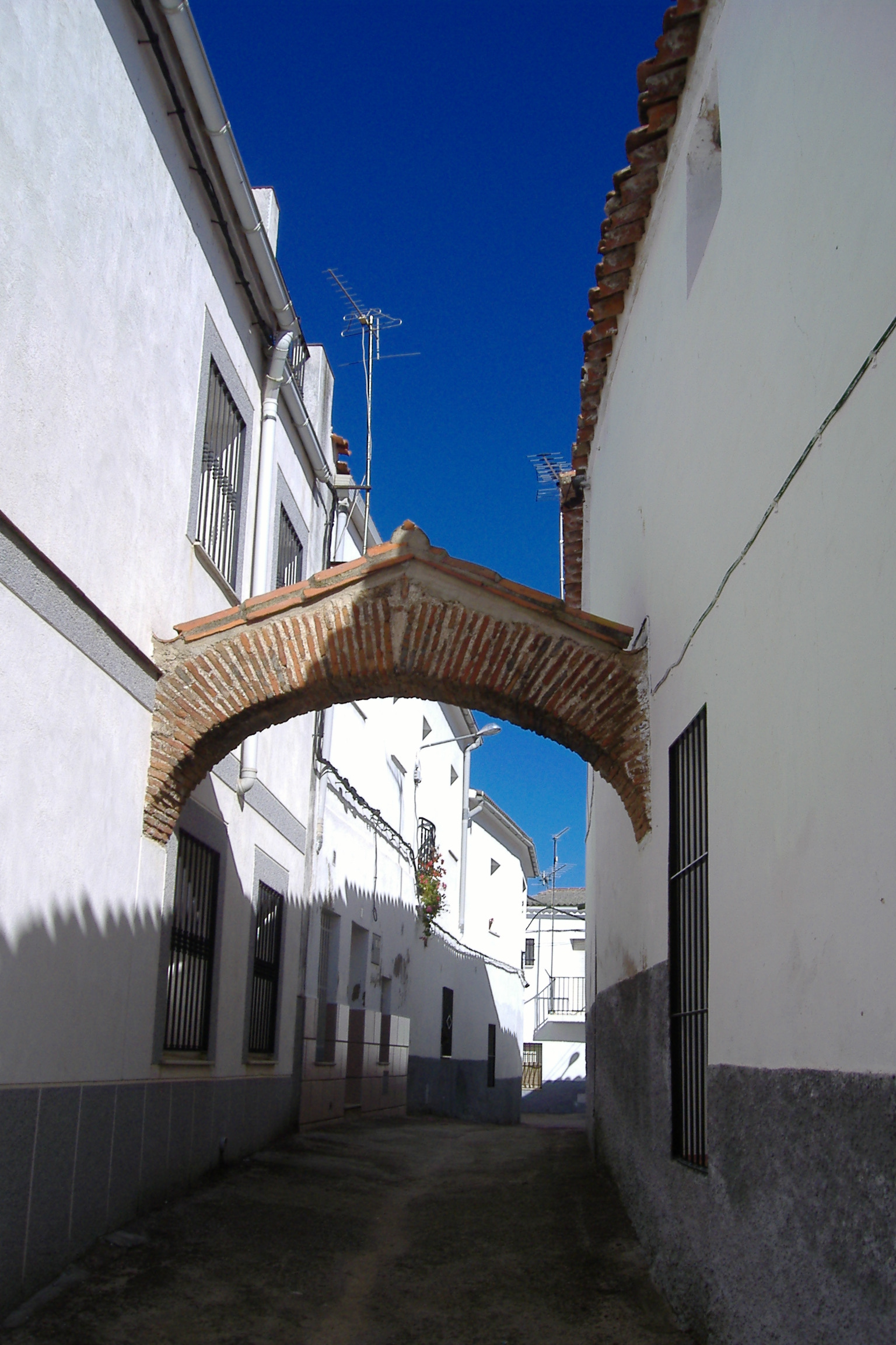 Arch in a street of Talaván (Extremadura, Spain)